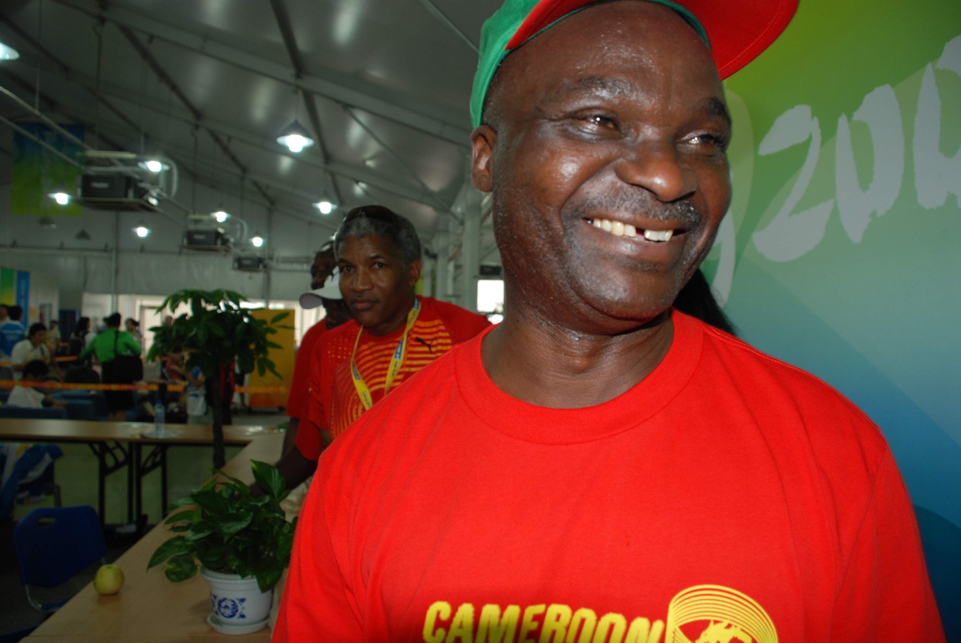 Football legend Roger Milla of Cameroon at the olympic village, Beijing, august 7th 2008